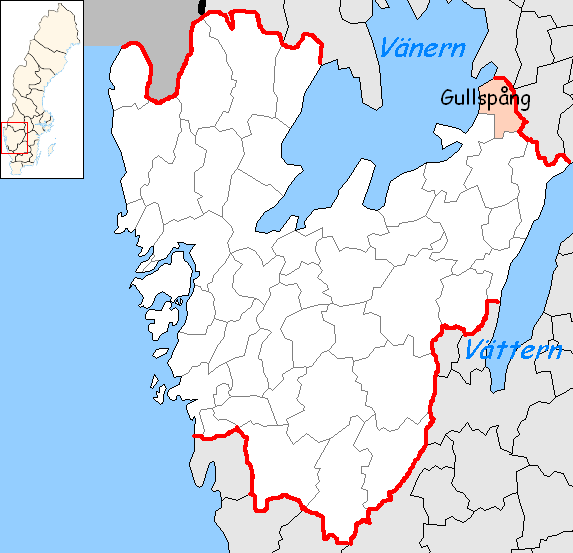 Gullspång Municipality in Västra Götaland County Designed by me. Mere outlines are a PD source from